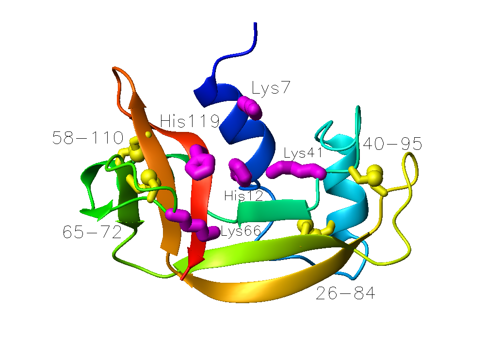 Labeled ribbon diagram of bovine pancreatic ribonuclease A (PDB accession code 7RSA). Made with MOLMOL.